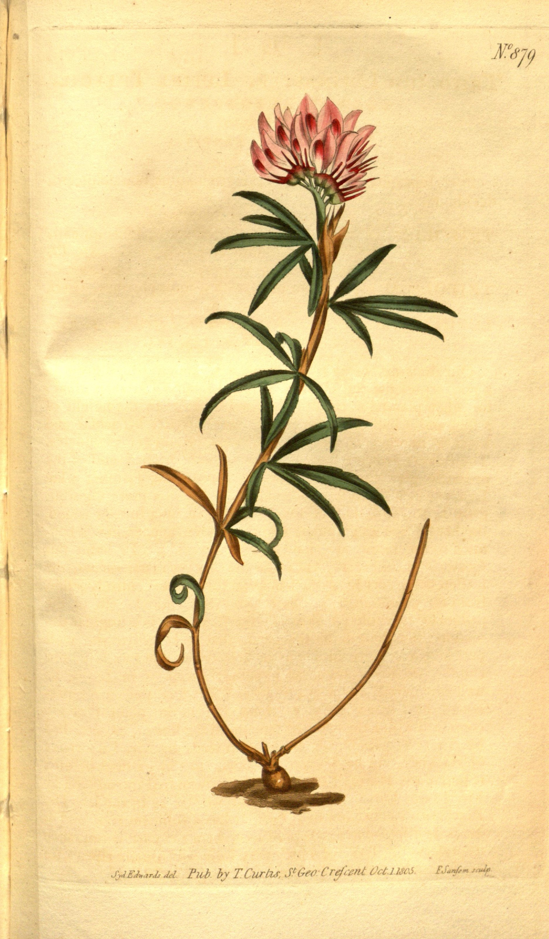 I: Tub by I '■■'